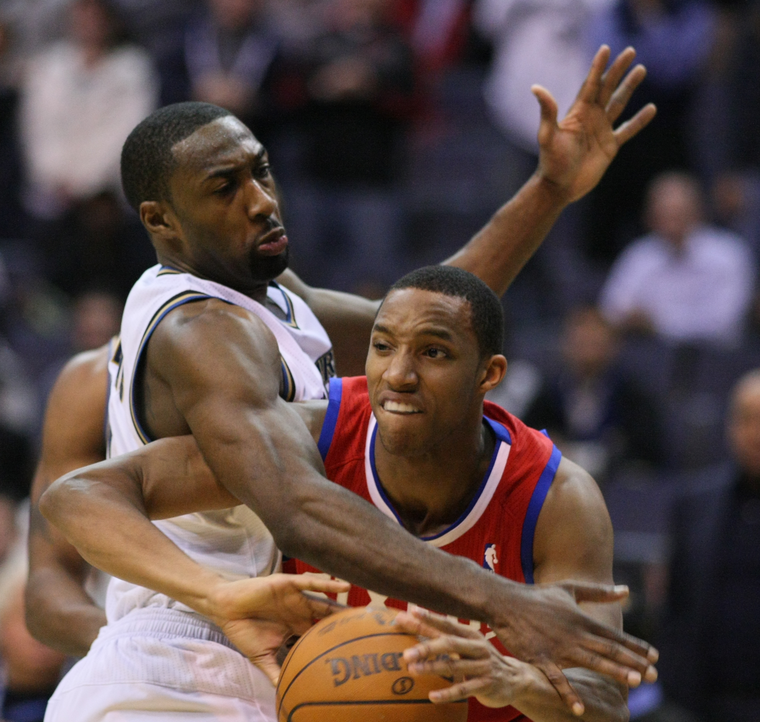 Washington Wizards v/s Philadelphia 76ers November 23, 2010